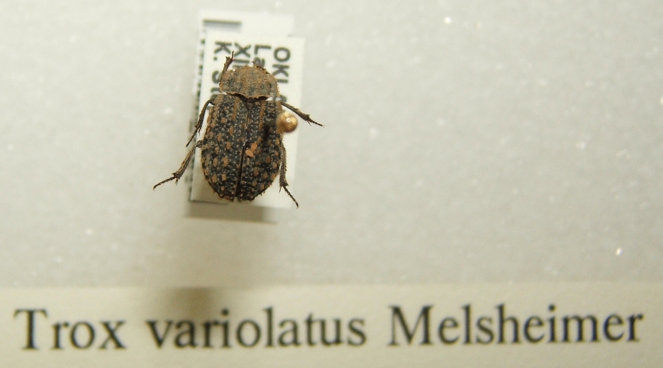 Trox variolatus adult taken by Shawn Hanrahan at the Texas A&M University Insect Collection in College Station, Texas. Cropped version: Trox variolatus sjh.cropped.jpg